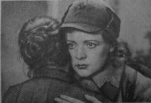 Still from the film The Front girlfriend